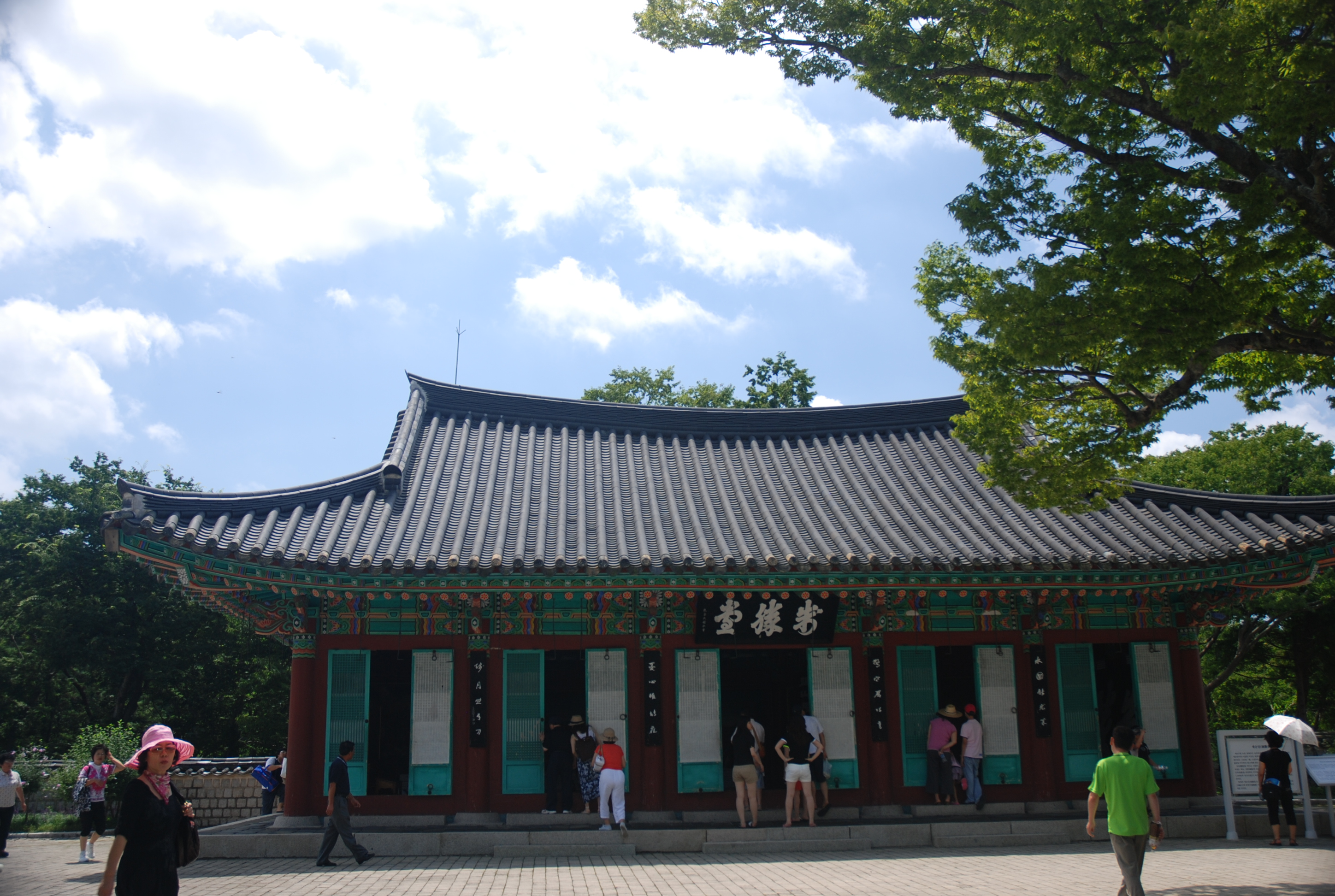 Jeseugndang is a shrine built to commemorate Admiral Yi Sun-sin on Hansan Island (Hansando), North Gyeongsang province, South Korea where Admiral Yi squashed the Japanese invasive military with the turtle-shaped ship (Turtle ship) during the Imjin War. The battle is referred to as "Battle of Hansan Island" (Hansan daecheop).